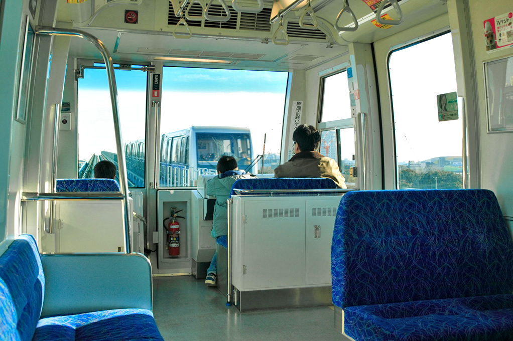 Yurikamome 7000 Series